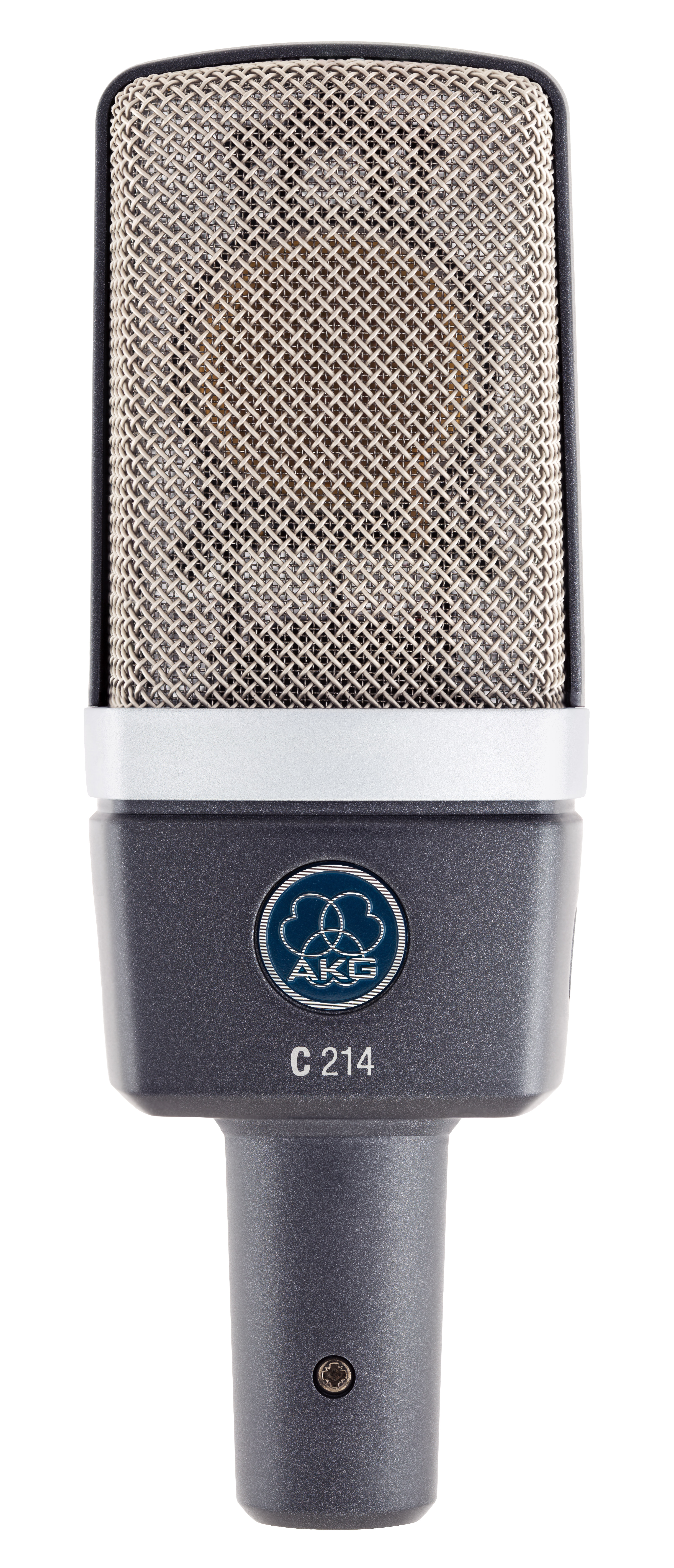 Studio photograph of an AKG C214 condenser studio microphone. The image was stitched together from 6 different shots which themselves were focus stacked from 3 images each. The studio lighting was achieved by two flashes and several reflectors. The microphone was standing on top of a transparent surface.